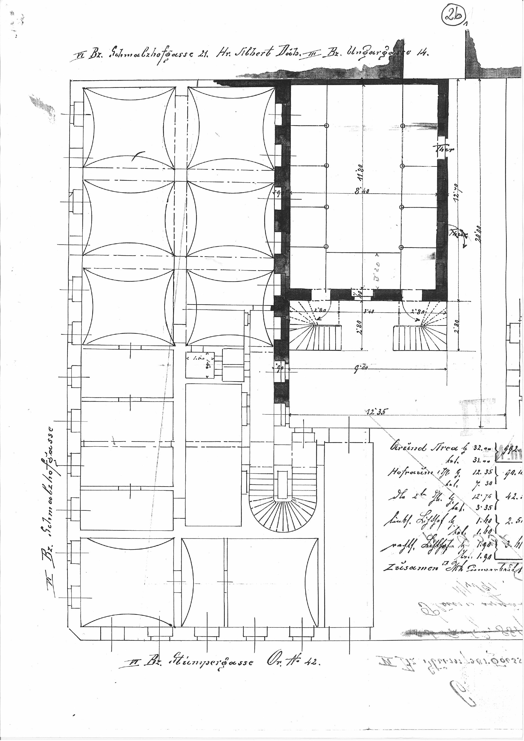 Groundfloor plan view former synagogue building (Stumpergasse 42 Vienna)